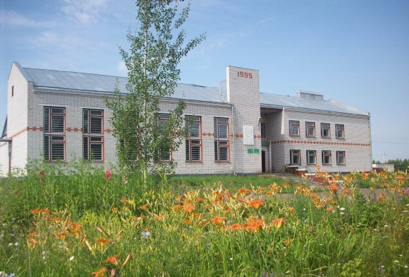 Iske Chachkab school Татарча/tatarça: Чәчкаб урта мәктәбе